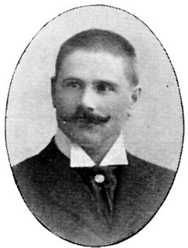 Image scanned from the book "Svenskt Porträttgalleri XX - Arkitekter, Bildhuggare, Målare m.fl. " ("Swedish Portrait Gallery XX - Architects, Sculptors, Painters, ") published 1901